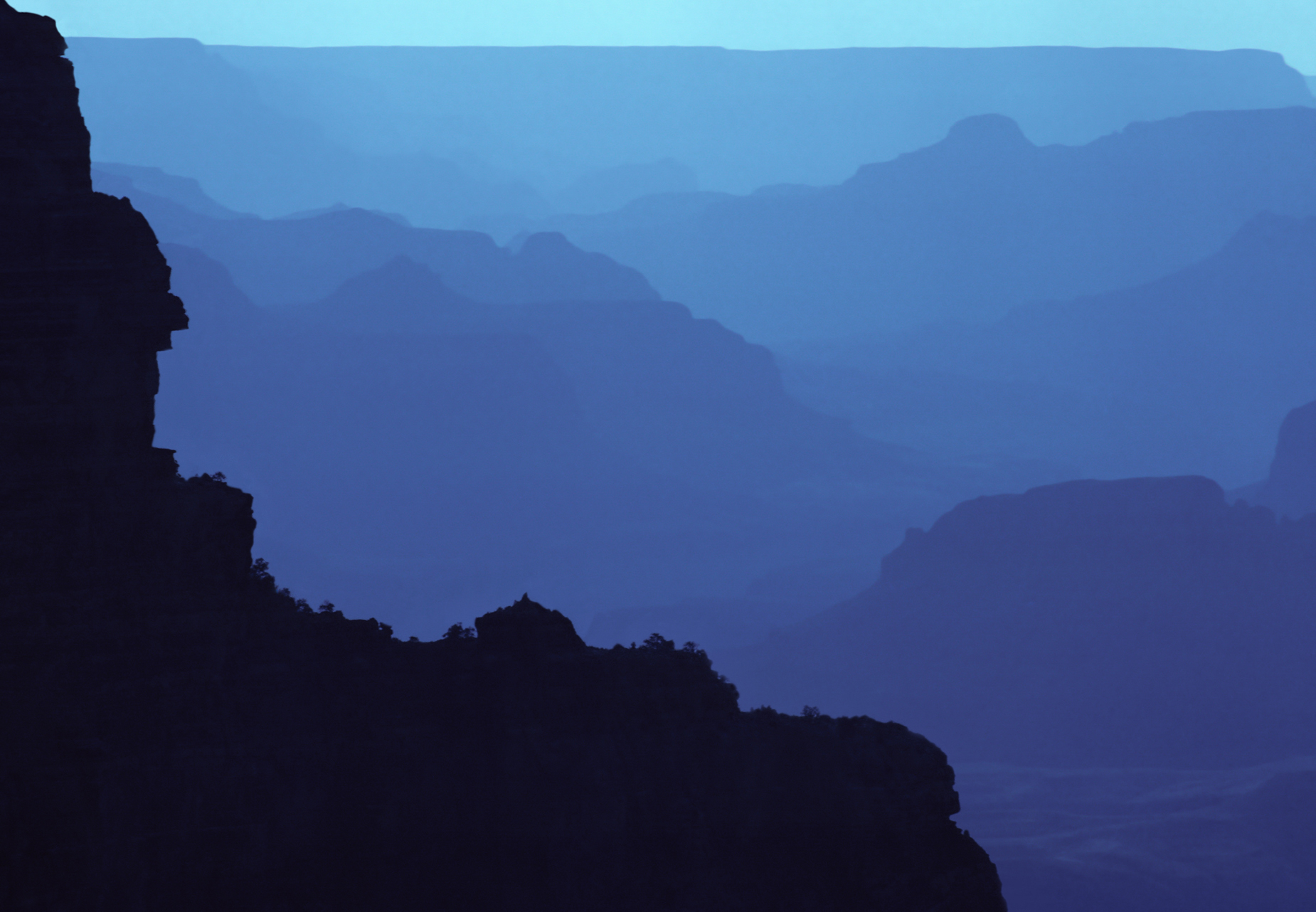 Hazy blue hour in Grand Canyon. View from the South Rim.